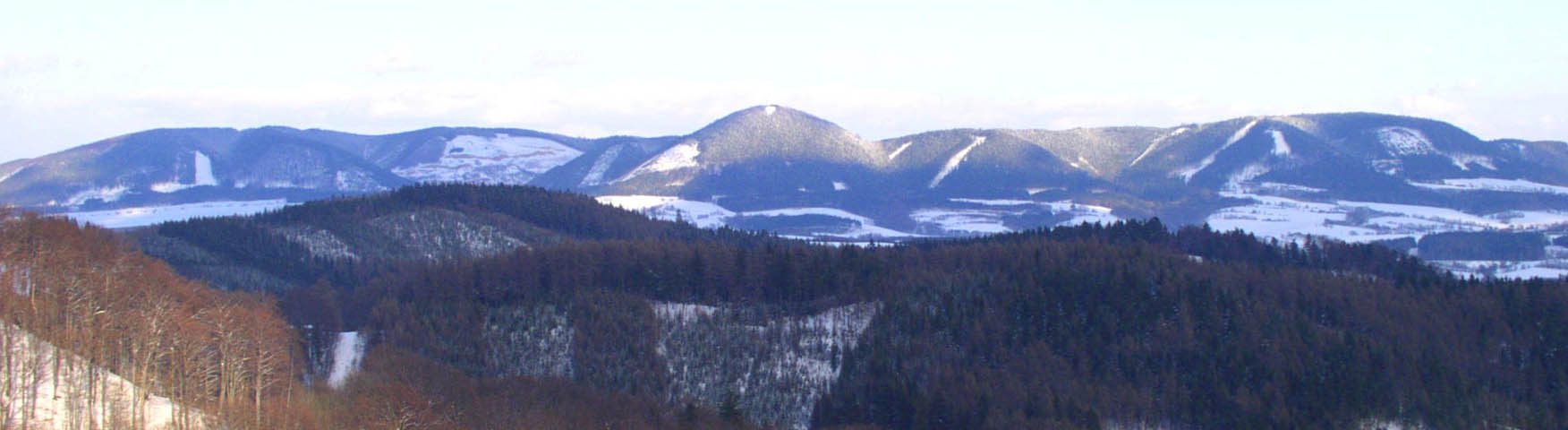 Snowy panoramic view of the southern, high part of the Krucze Mountains (Vraní hory), Central Sudetes, as seen from the west (i.e. from the Czech side). The photo was taken from the ski slope of Prkenný Důl near Žacléř.